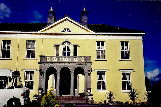 Castledaly Manor This is a 300+ year old Georgian manor house on 35 acres of woodland and rolling pastures. It was home to the O'Daly family. The farm village of Castledaly is a short walk from the manor house and consists of a general store, a pub, and a church. The 1st floor includes a large guest lounge, a dining room, and a bar with a sitting area. The basement and 2nd floor includes 10 ensuite bedrooms (2 in the basement and 8 on the 2nd floor). Pierce Brosnan stayed here.